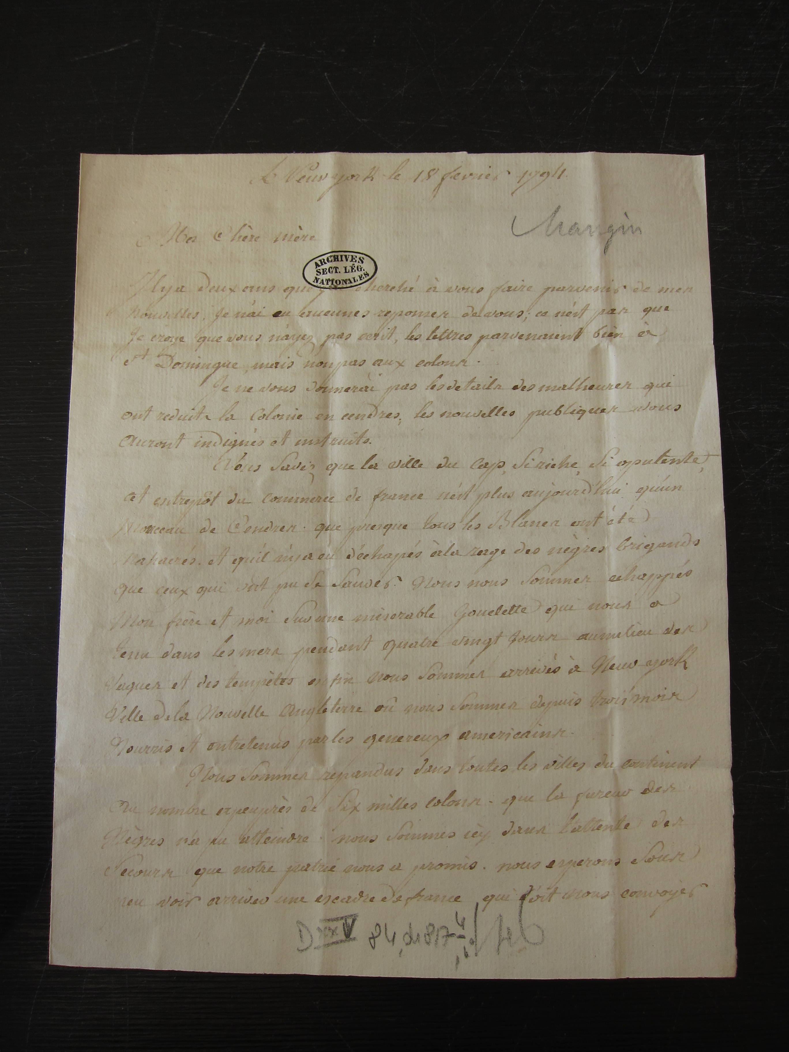 Letter to his mother following his arrival in New York City